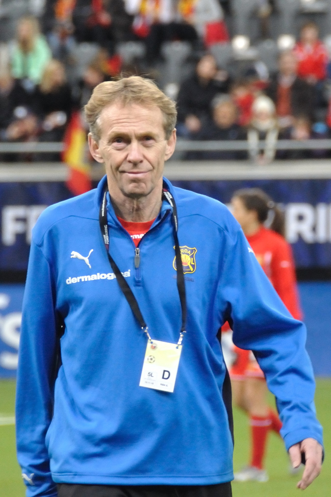 Ole-Bjørn Edner at the 2010 Norwegian Cup Final